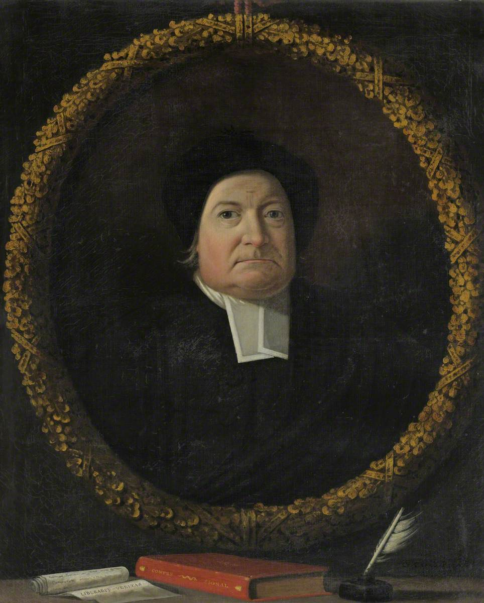 Portrait of Francis Blackburne (1705–1787), English Anglican priest, archdeacon of Cleveland.